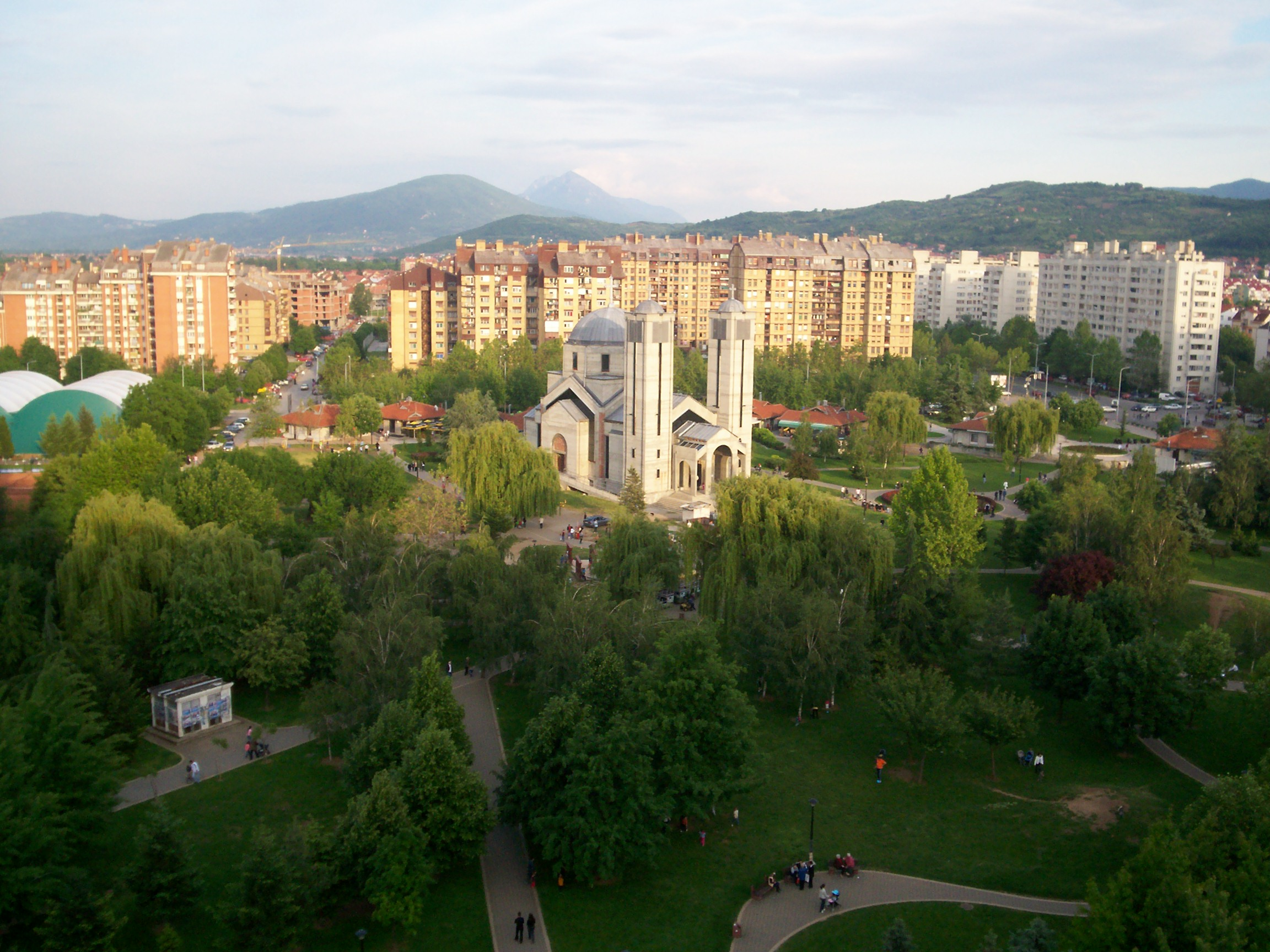 Nis, Serbia